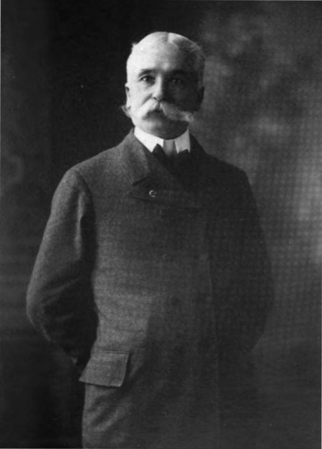 Portrait of Richard Henderson Beamer from History of Yolo County, California, 1913, page 242